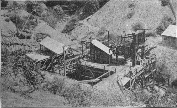 Headframe and plant at the Champion shaft. Photo by C. A. Logan.